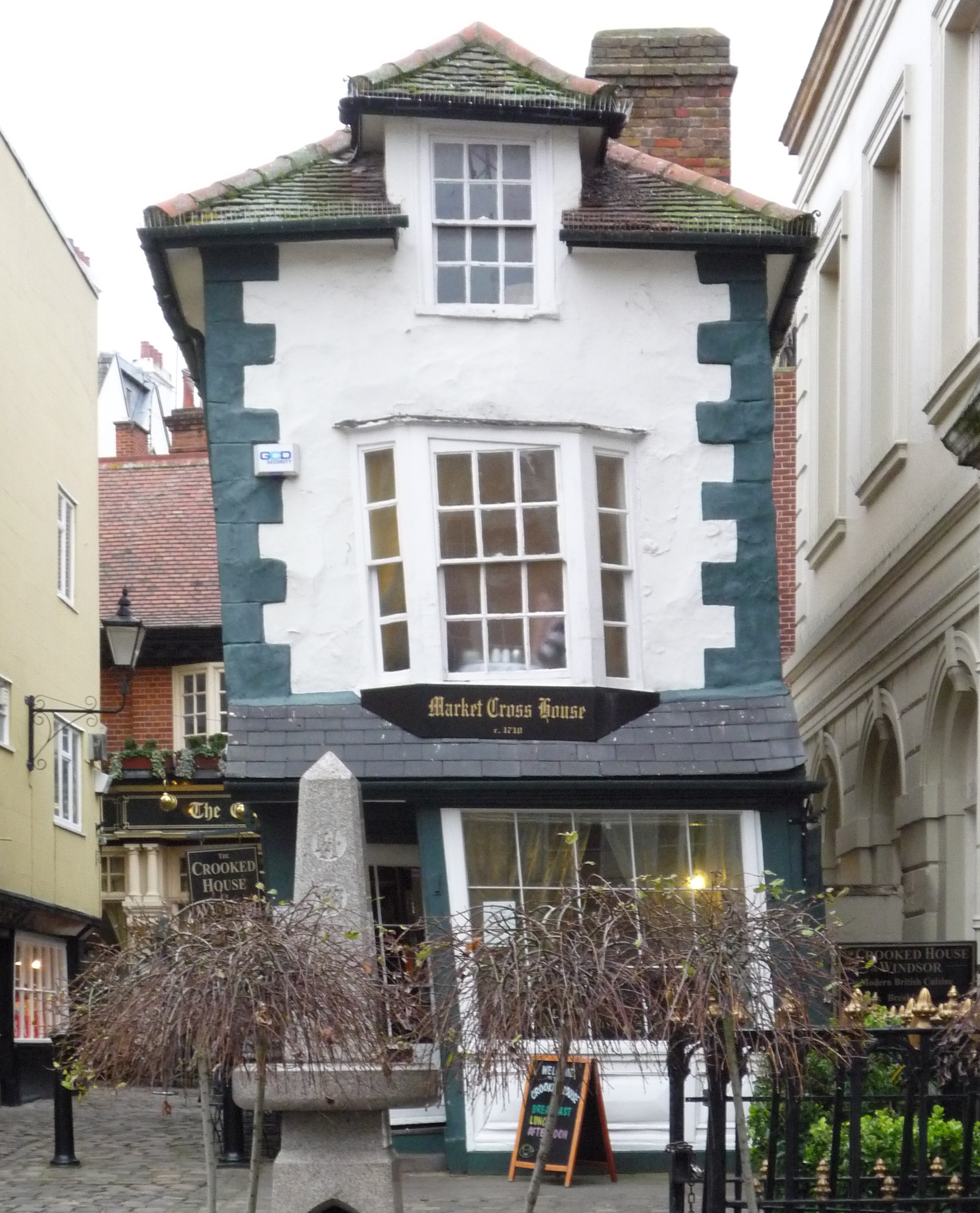 Market Cross House (Crooked House of Windsor), Windsor, Berkshire.